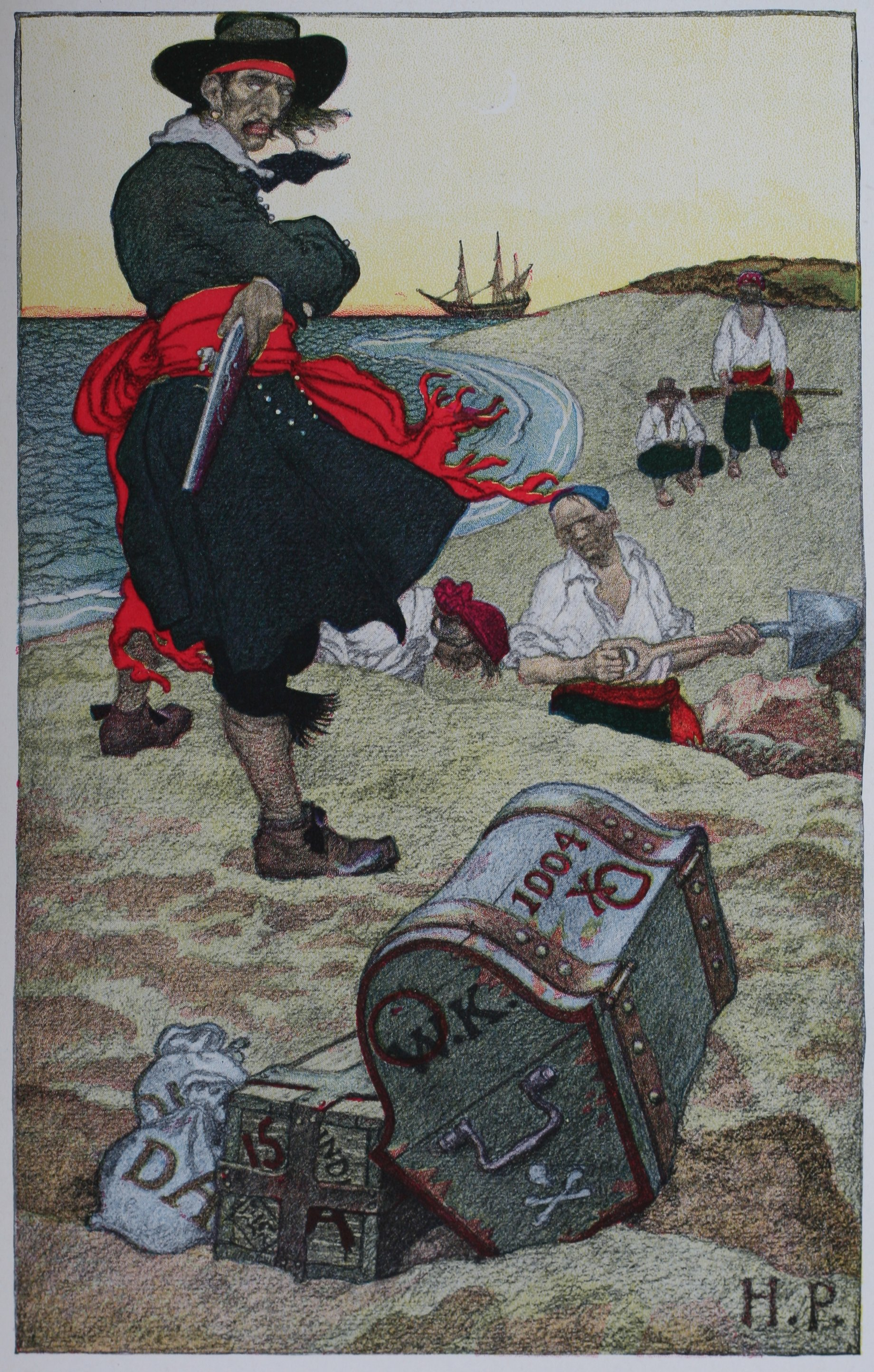 Buried Treasure: illustration of William "Captain" Kidd overseeing a treasure burial